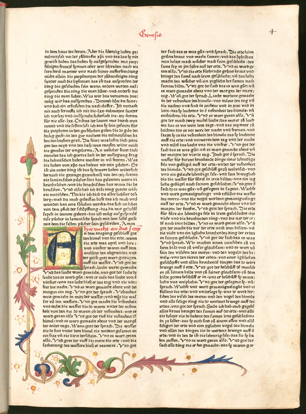 Beginning of Genesis in the German Mentelin-Bibel, 1466